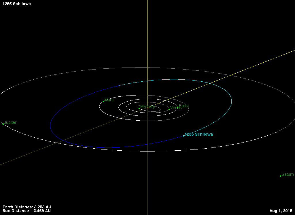 1255 Schilowa orbit and his position on 01 Aug 2015 (NASA Orbit Viewer applet)